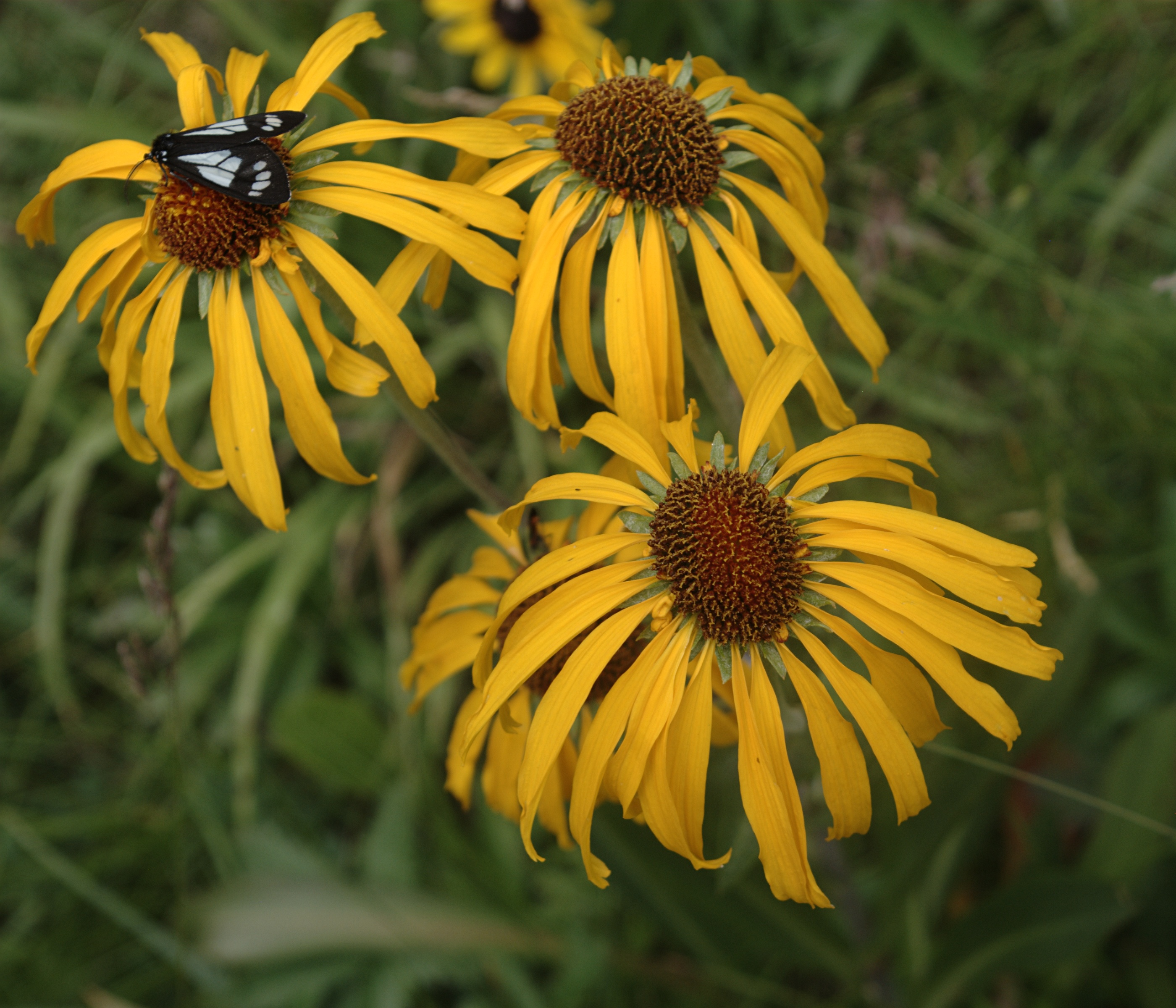 Flower heads of Hymenoxys hoopesii, owl's-claws or orange sneezeweed, near Santa Fe Ski Basin, Santa Fe National Forest, Santa Fe County, New Mexico. The black and white moth is Gnophaela vermiculata.